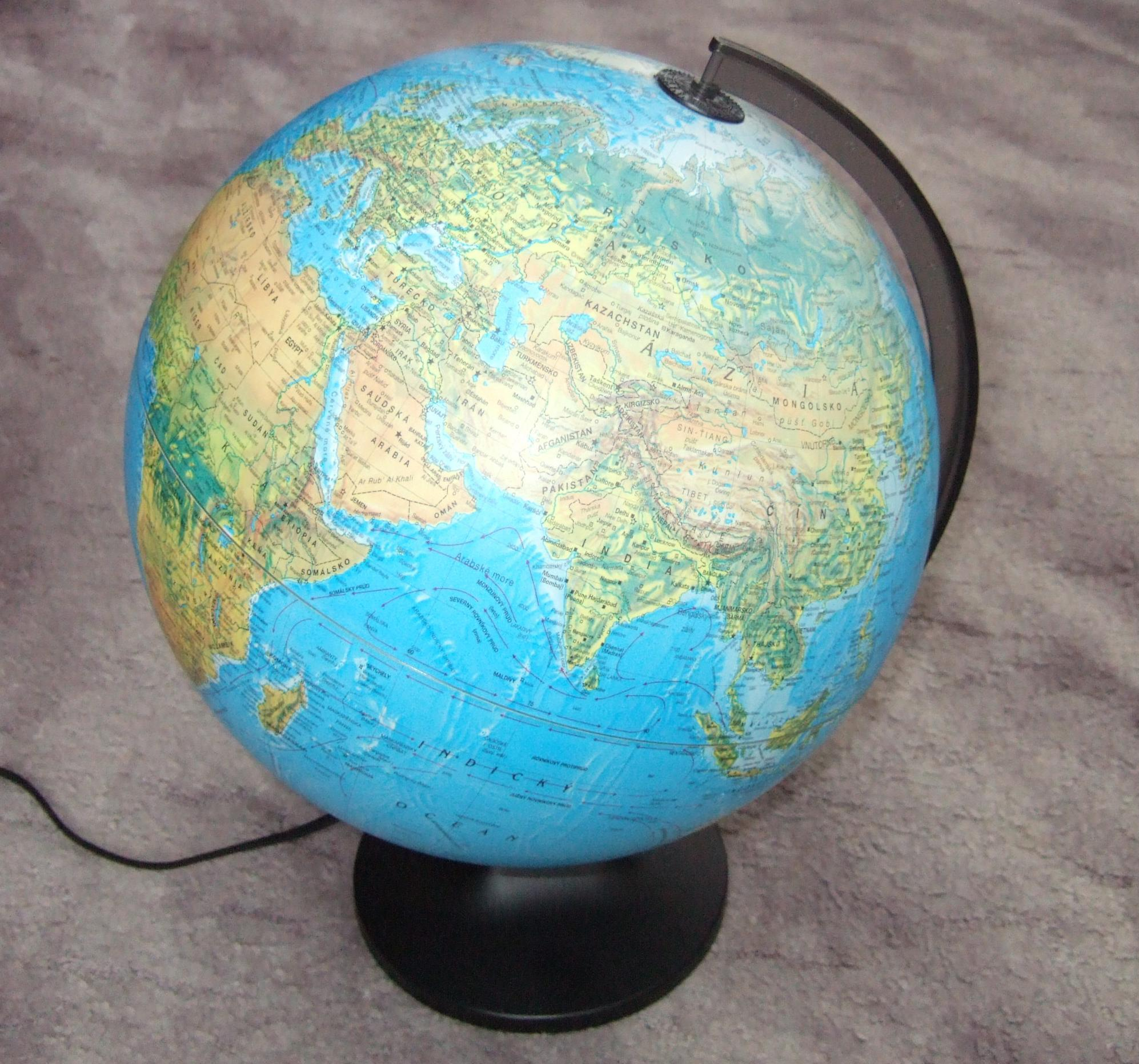 A globe with the titles in Slovak language. Picture taken on April 12, 2006 by Marian Gladis.